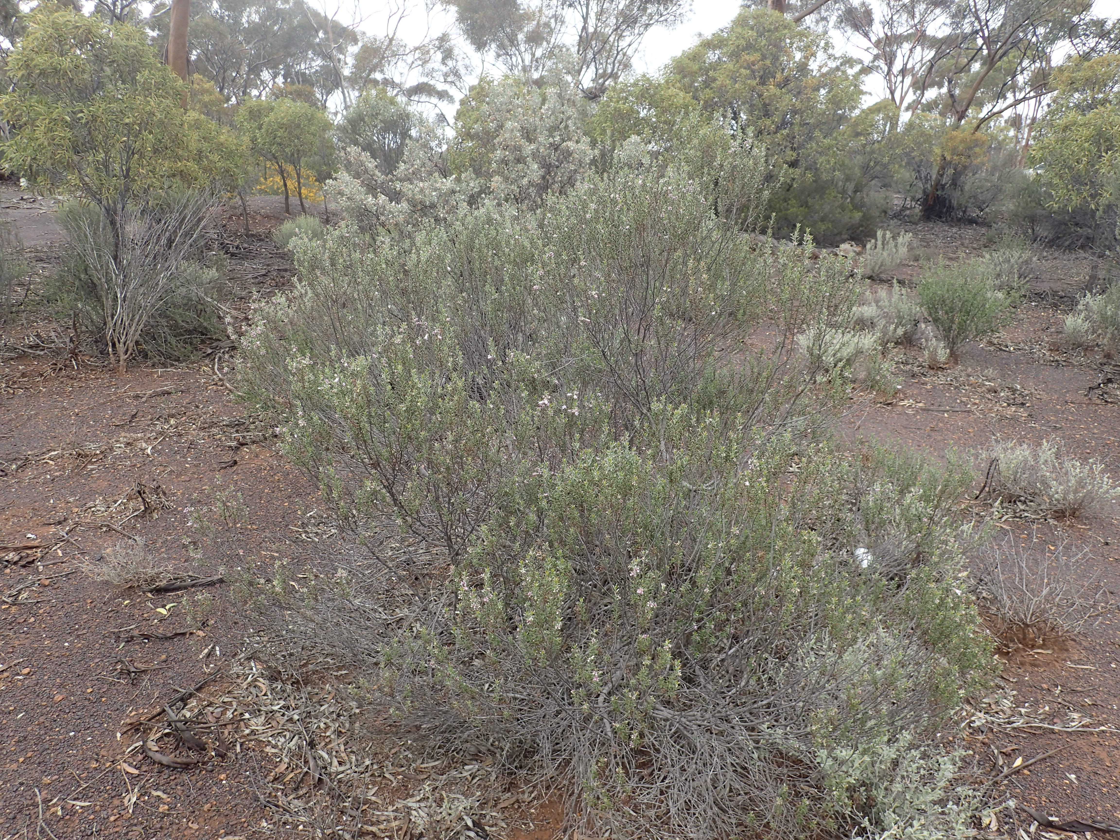 Eremophila psilocalyx growing 14 km south of Widgiemooltha